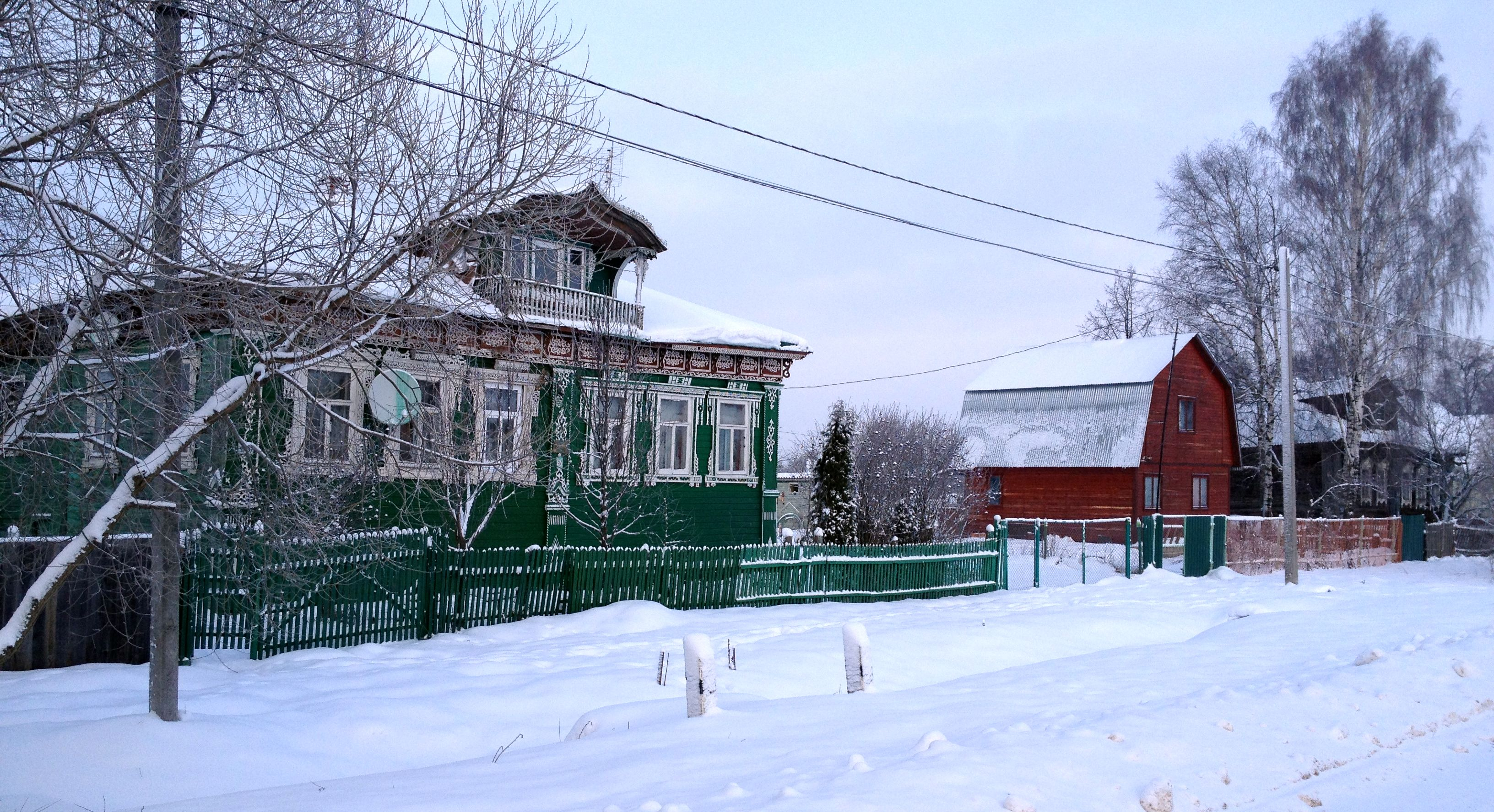 Building in Nushpoly (Taldomsky district, Moscow oblast).